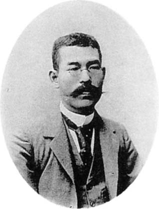 K. Okano, Professor of Commercial Code.